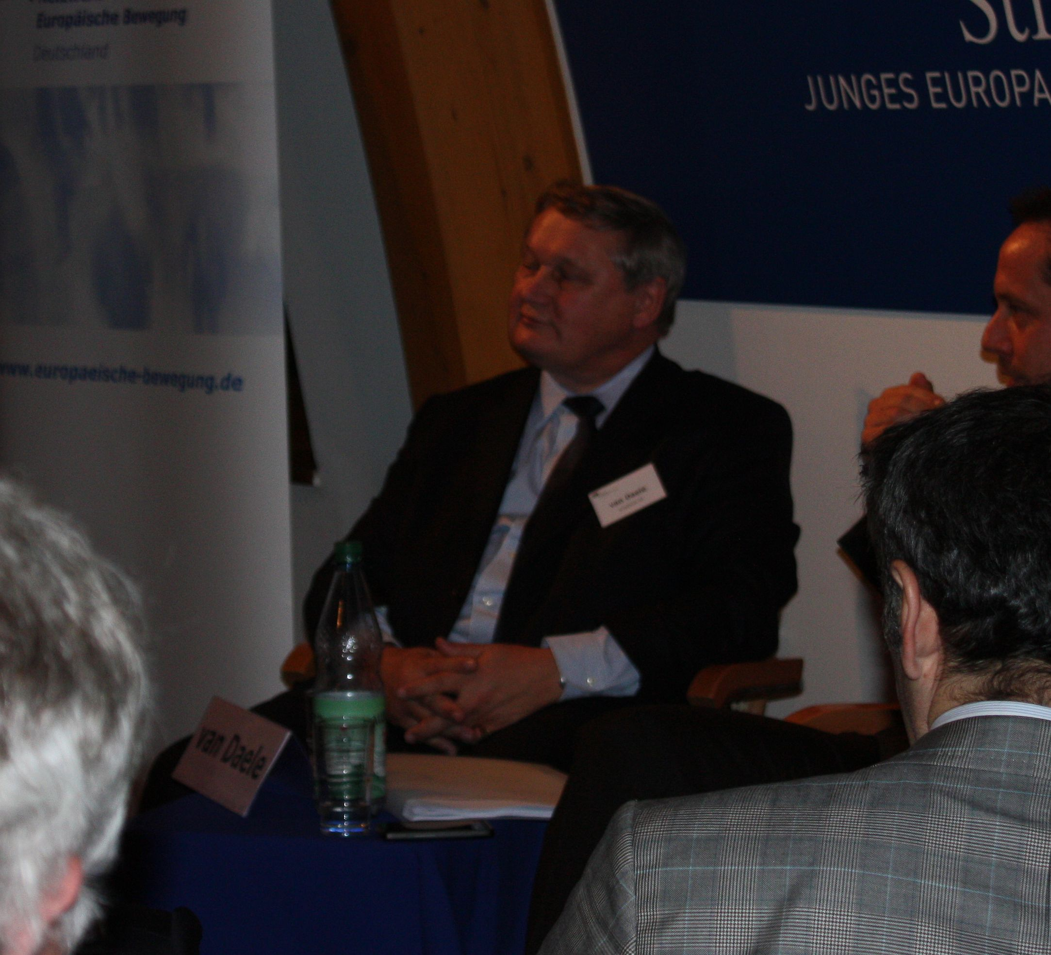 Frans van Daele (Head of Cabinet Van Rompuy) at European Movement Germany 2010